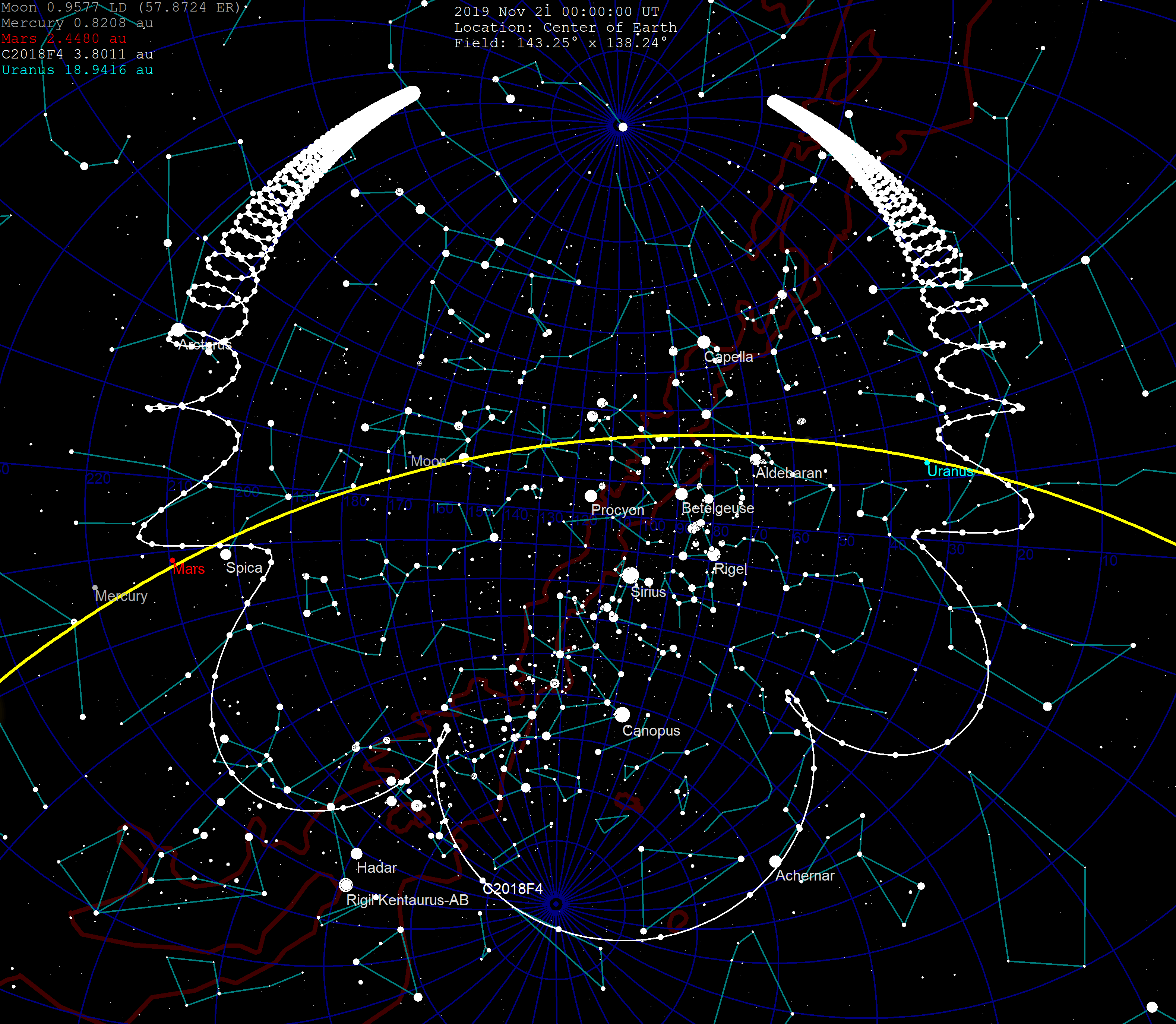 C/2018 F4 (Pan-STARRS) skypath from earth, markers for 30 days of motion